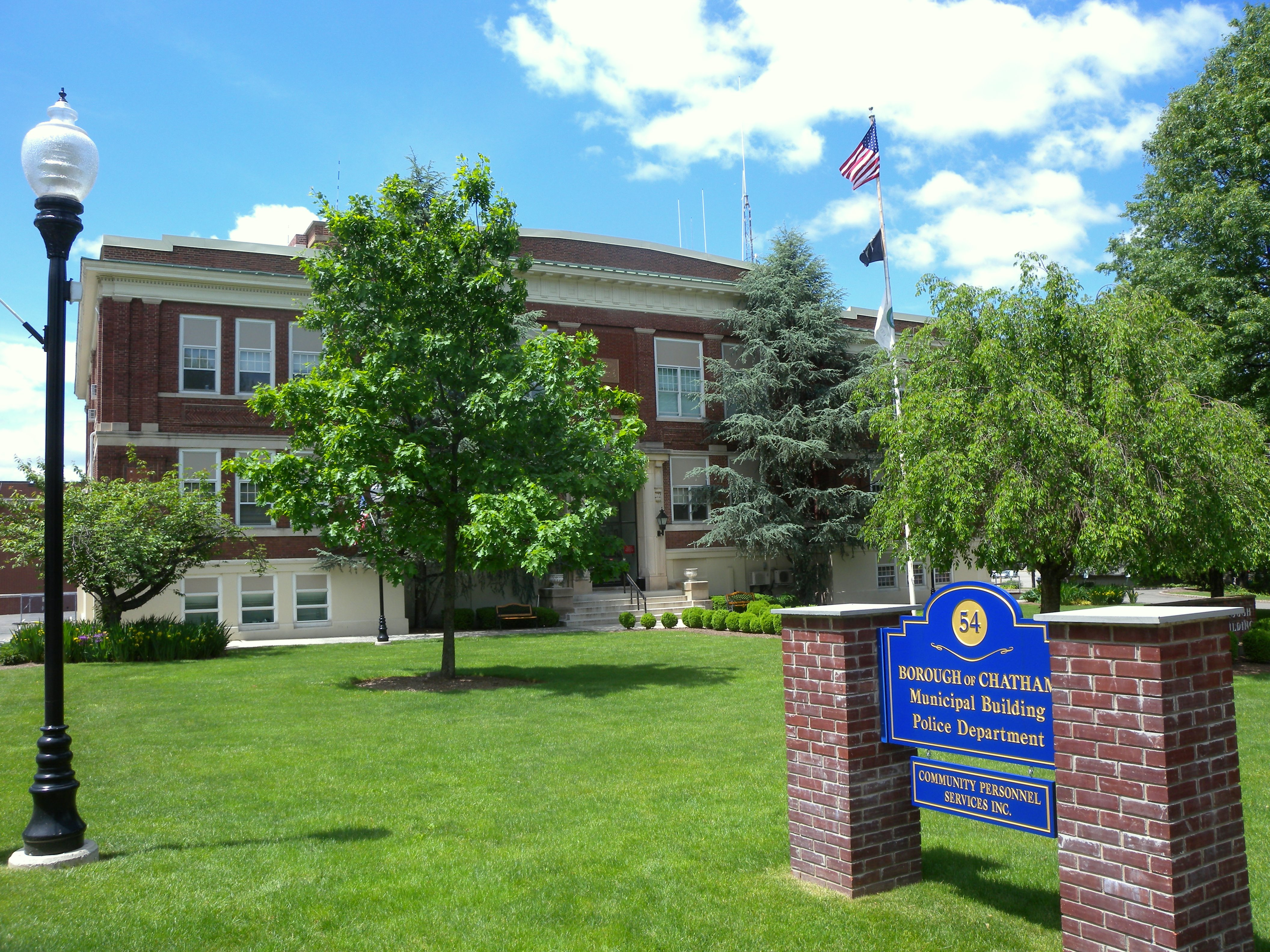 Looking northwest at Chatham Borough municipal building on a mostly sunny midday.